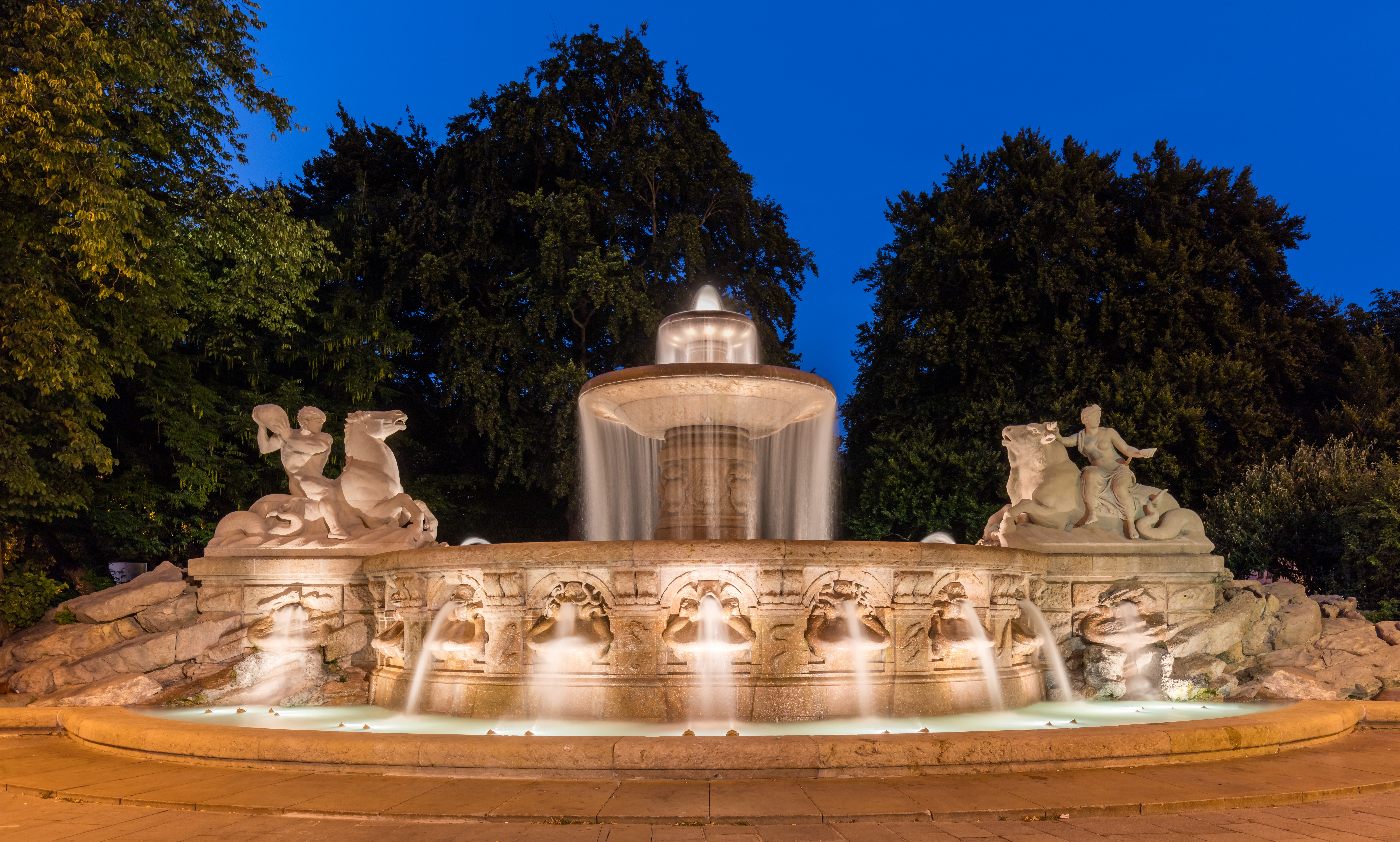 The monumental Wittelsbacher fountain in the northern part of central Munich, in Bavaria, Germany. The sculpture on the left is of a woman seated on a bull, holding a bowl, and depicts the healing qualities of water; on the right, a man sits astride a horse and hurls a rock, representing water's destructive power. Built between 1893 and 1895, the design follows drawings of the sculptor Adolf von Hildebrand.